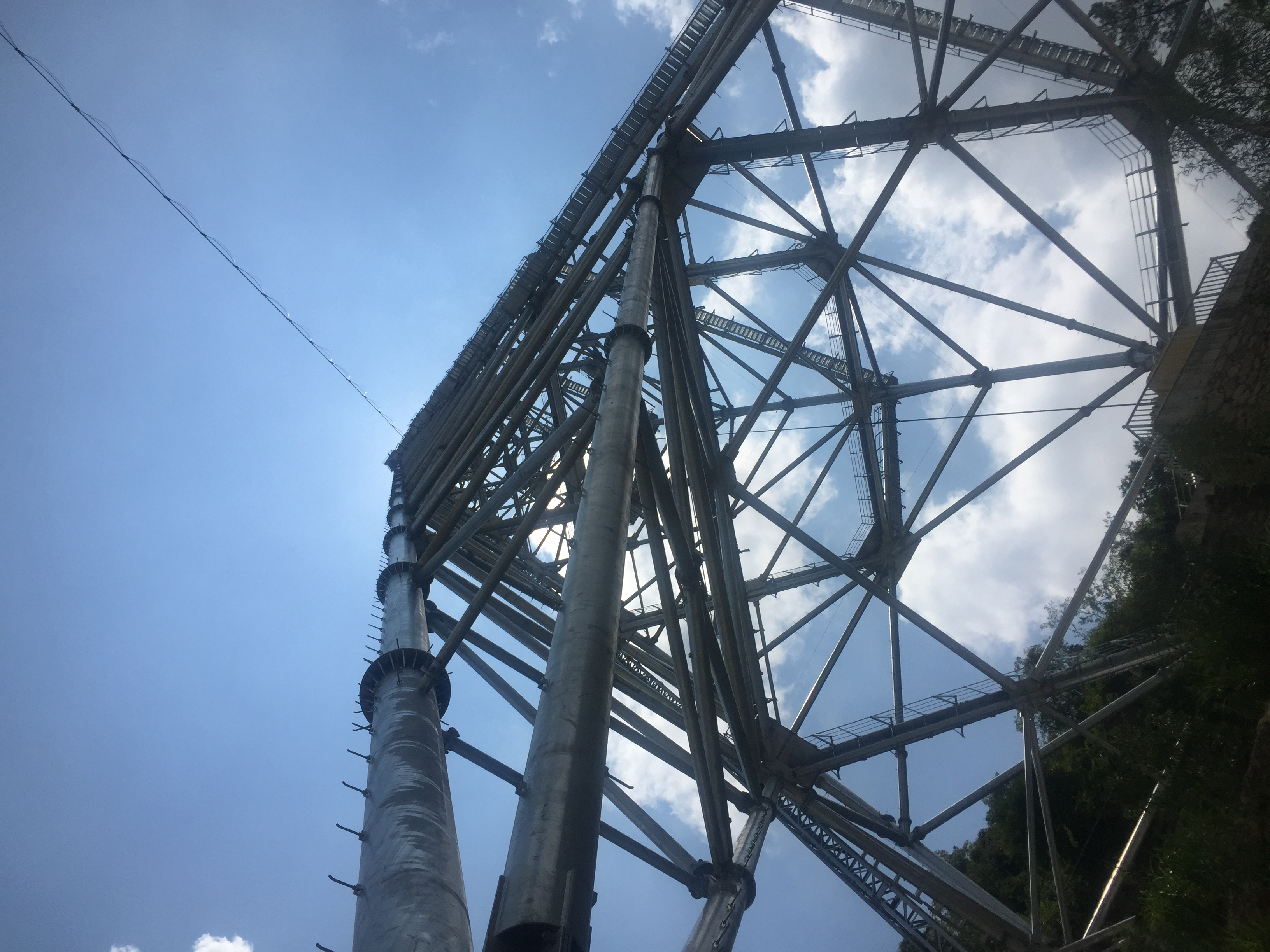 Bottom view from one of the six support towers